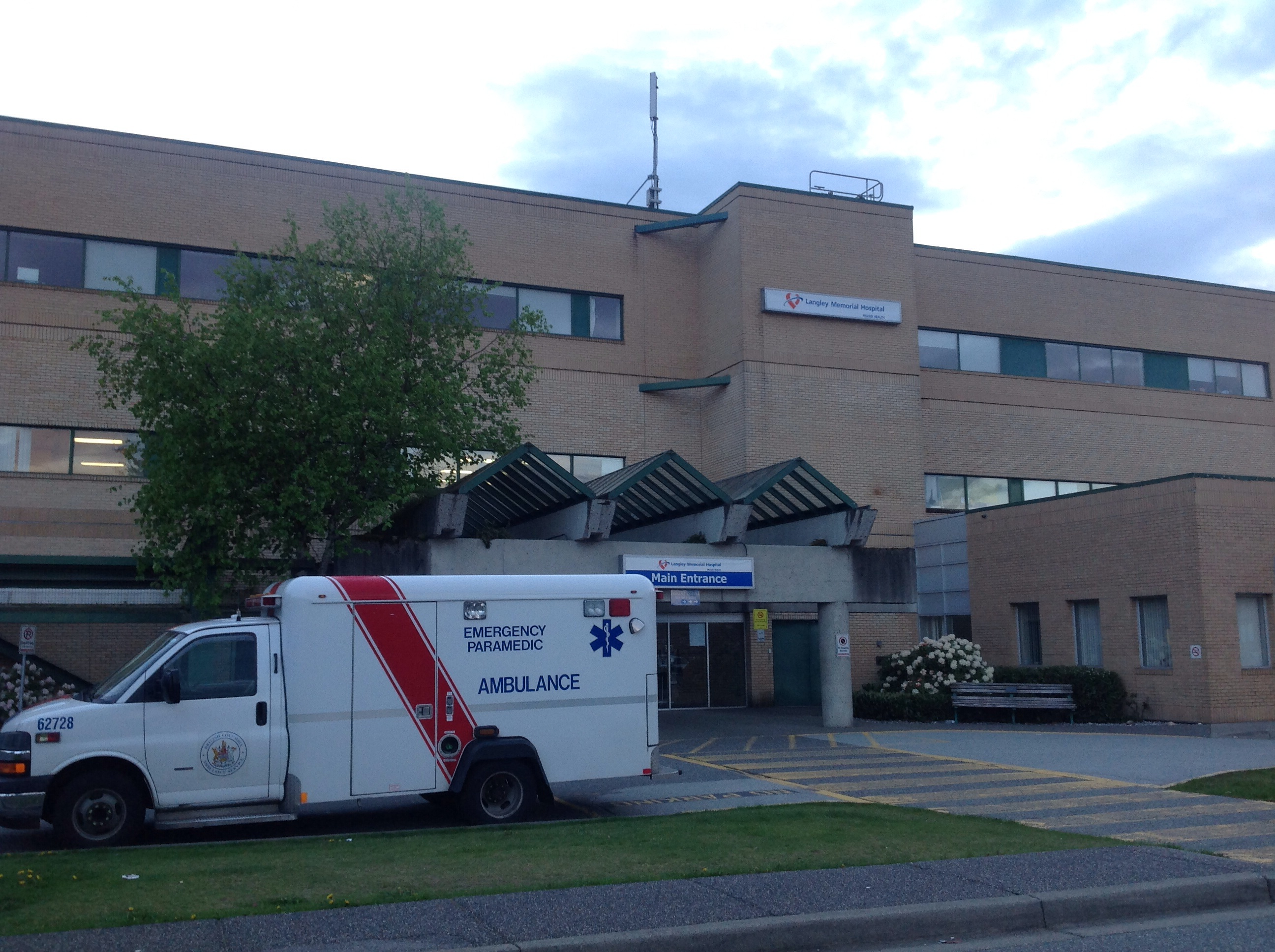 An ambulance parked in front of main entrance to Langley Memorial Hospital in Township of Langley, British Columbia